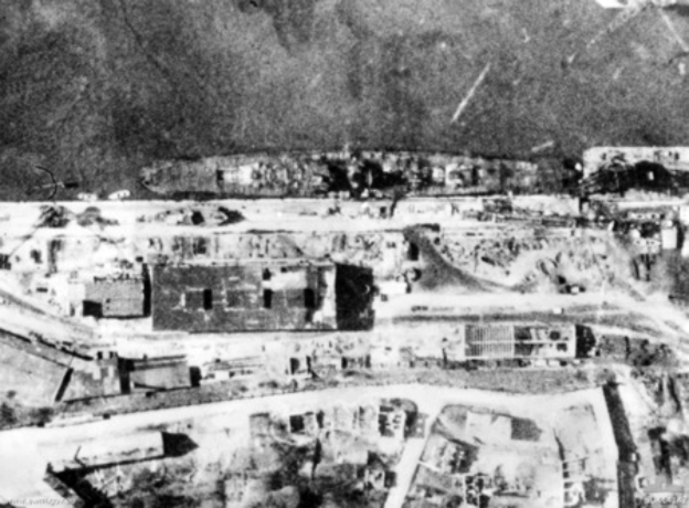 The German heavy cruiser Admiral Scheer in the Inner Dockyard basin at Kiel, Germany, before the RAF Bomber Command's attack on the night of 9 April 1945 after which she capsized.